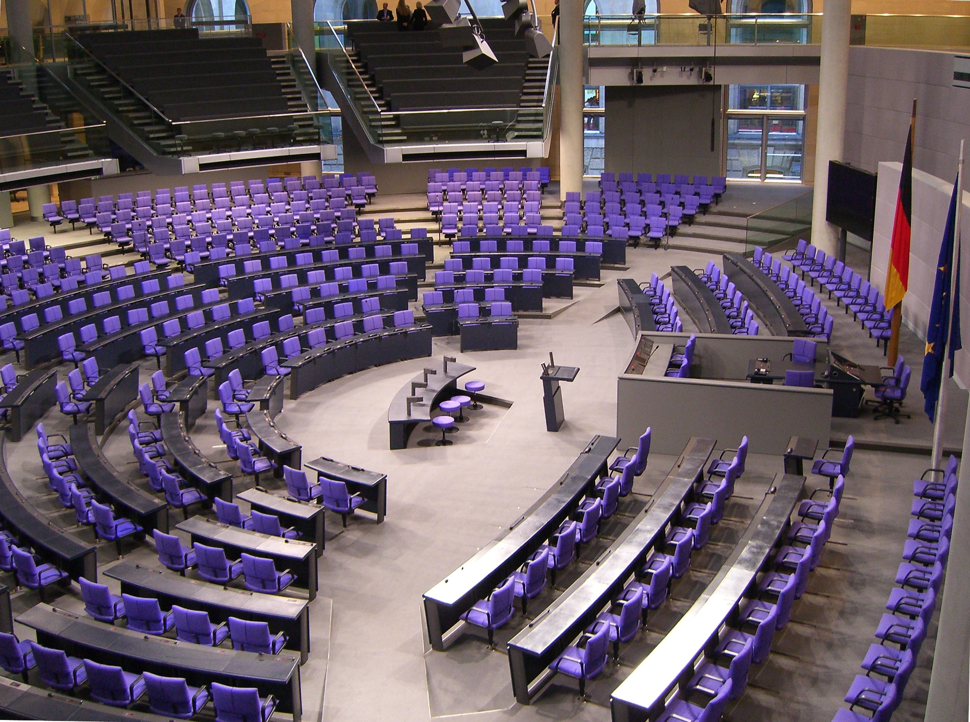 Plenary chamber of the German parliament (Deutscher Bundestag) in the Reichstag building in Berlin.